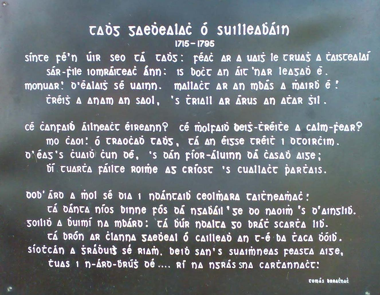 Photograph by Jeremy Flynn, 25 November 2006, Ballylaneen.